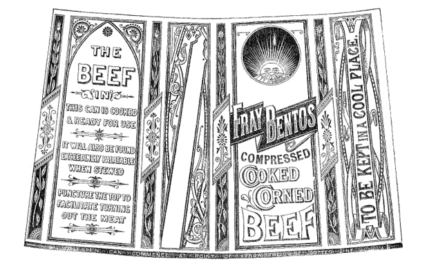 Trademark 25798 for Fray Bentos Corned Beef, registered by Liebig's Extract of Meat Company in 1881